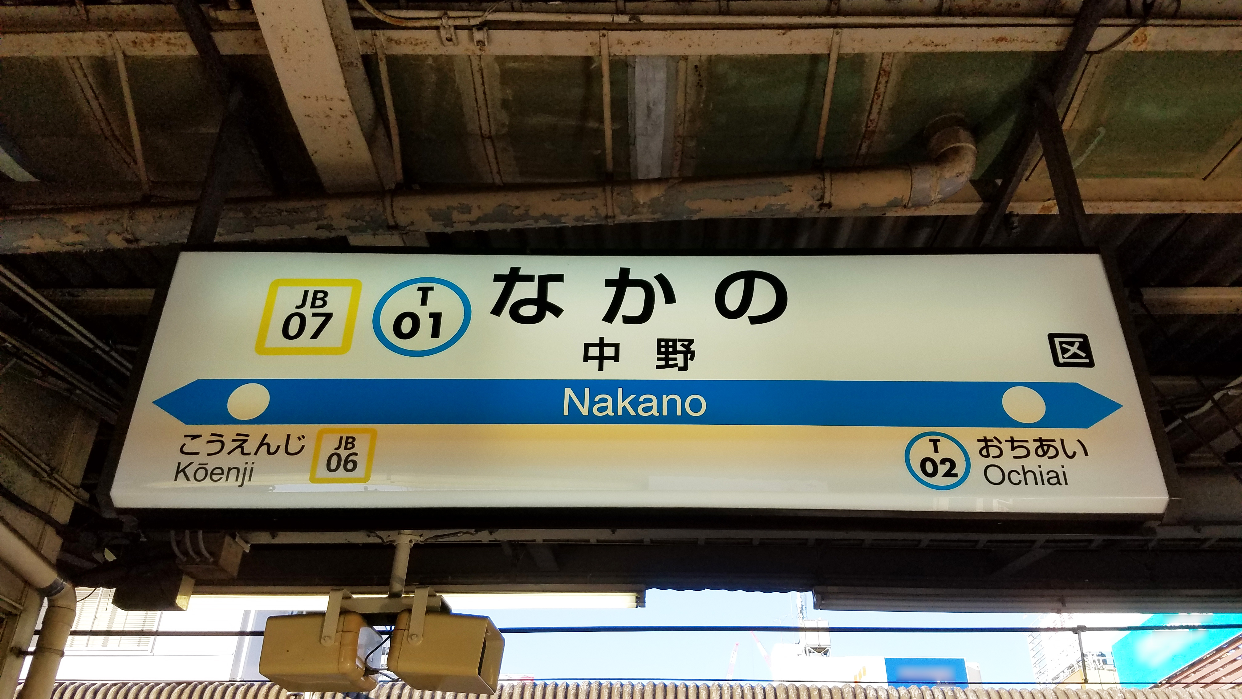 The station sign at Nakano Station on the Tokyo Metro Tōzai Line and Chūō-Sōbu Line in Tokyo